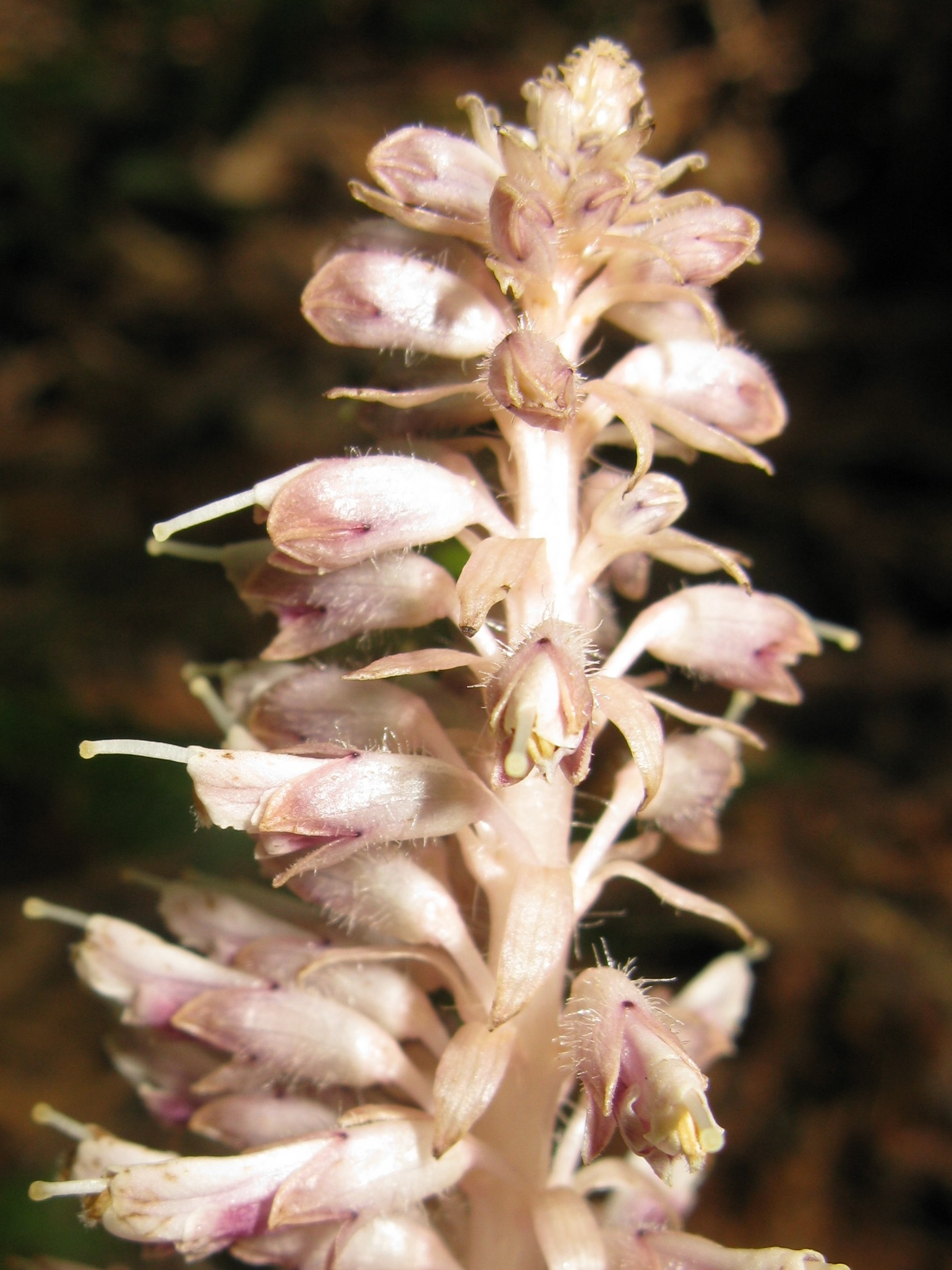 Lathraea japonica, Aizu area, Fukushima pref., Japan